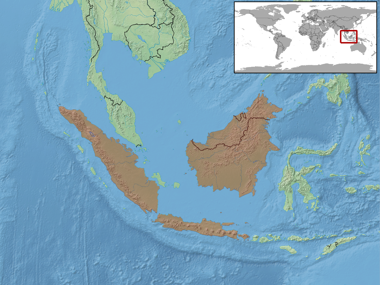 geographic distribution of Gongylosoma longicauda (Native: Indonesia (Jawa, Kalimantan, Sumatera); Malaysia (Sabah, Sarawak))